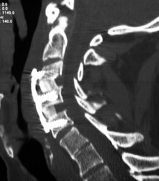 Spinal cord compression, status-post 2-level, anterior cervical discectomy & fusion (ACDF) with allograft.